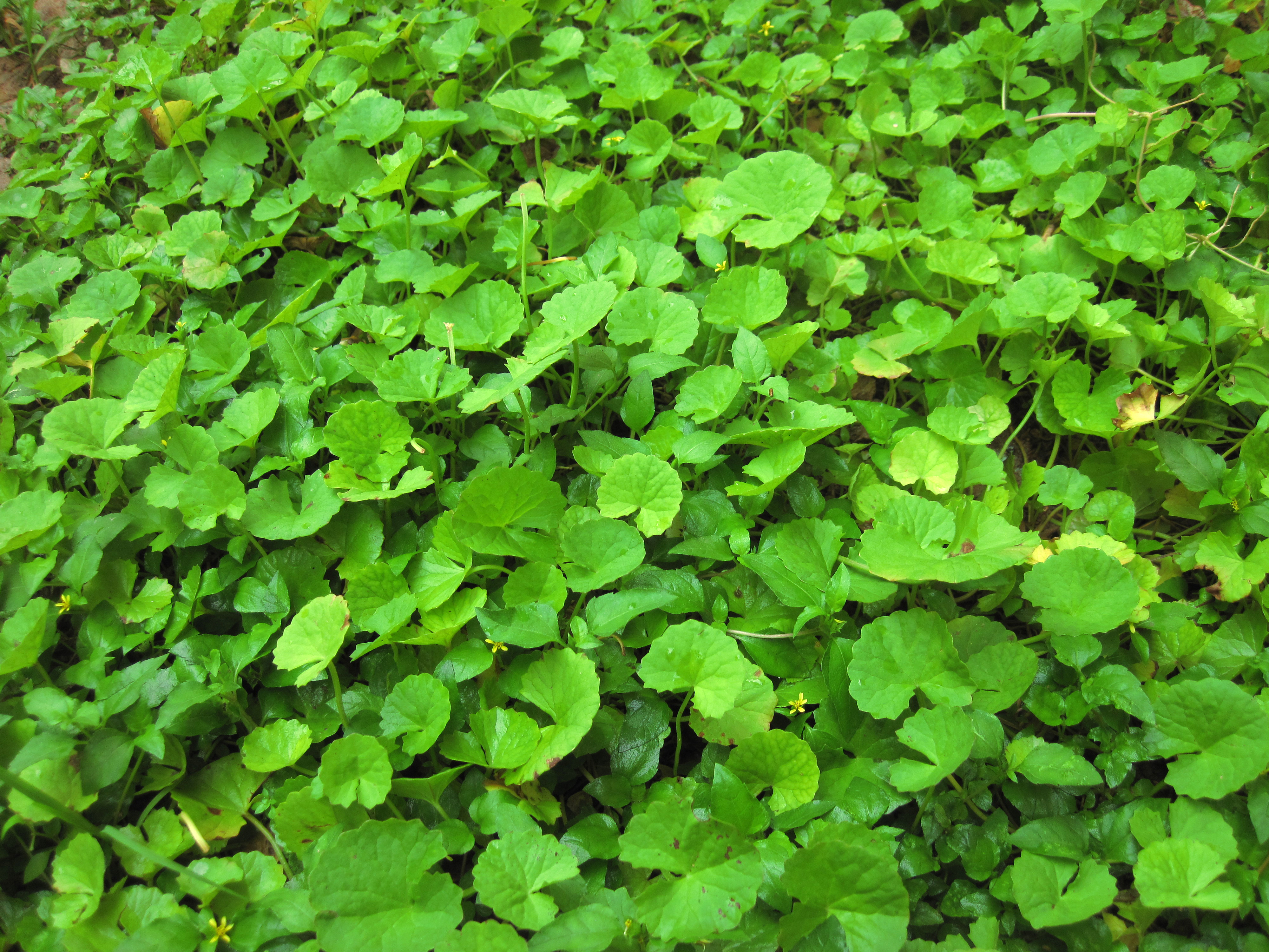 Asiatic Pennywort plants. Picture taken at Bengaluru, Karnataka, India.